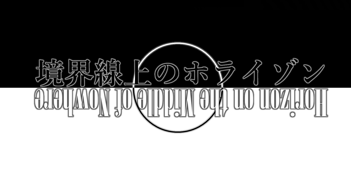 Logo of Kyōkai Senjō no Horizon.